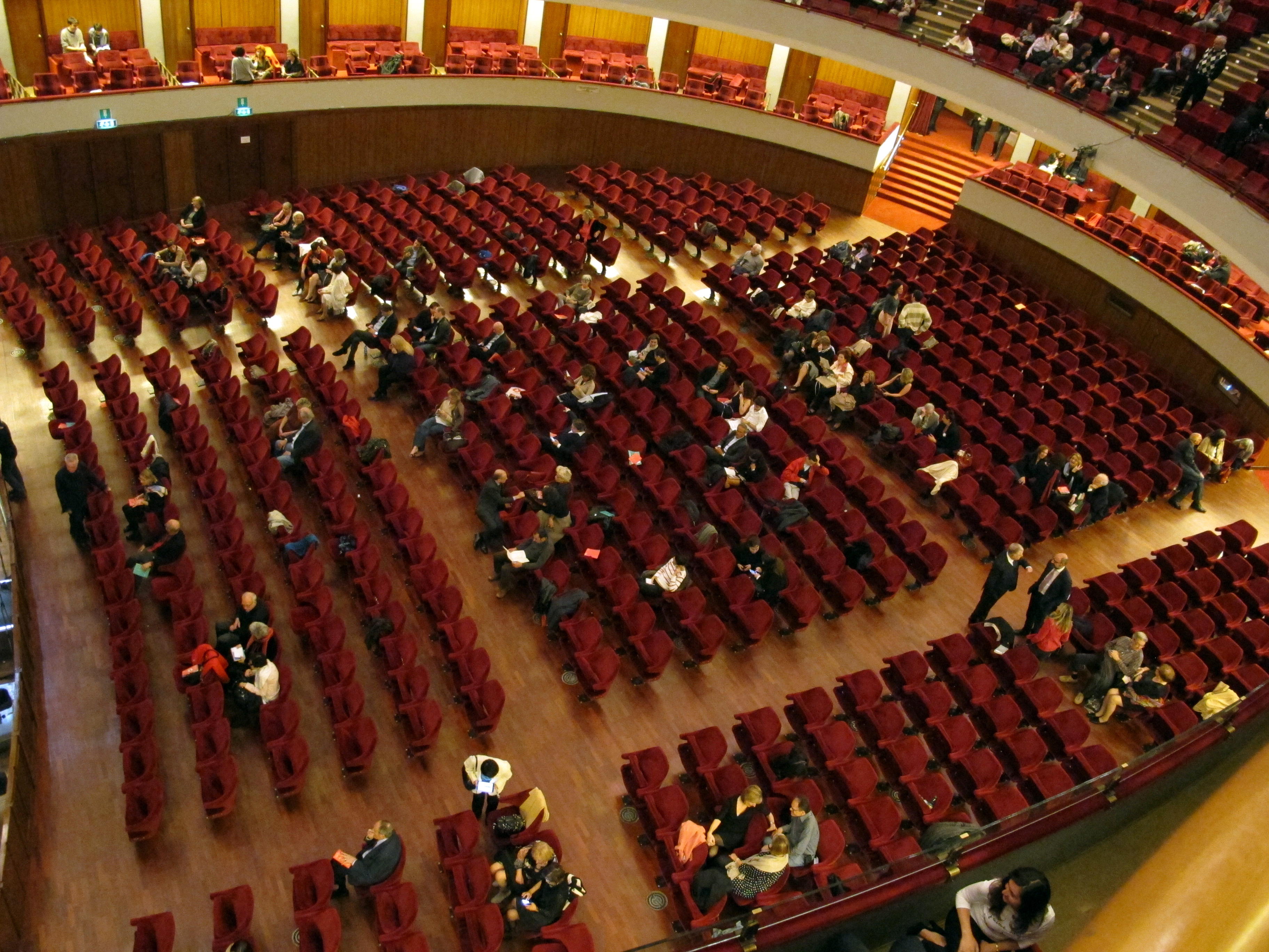 Teatro Comunale (Florence) - Interior